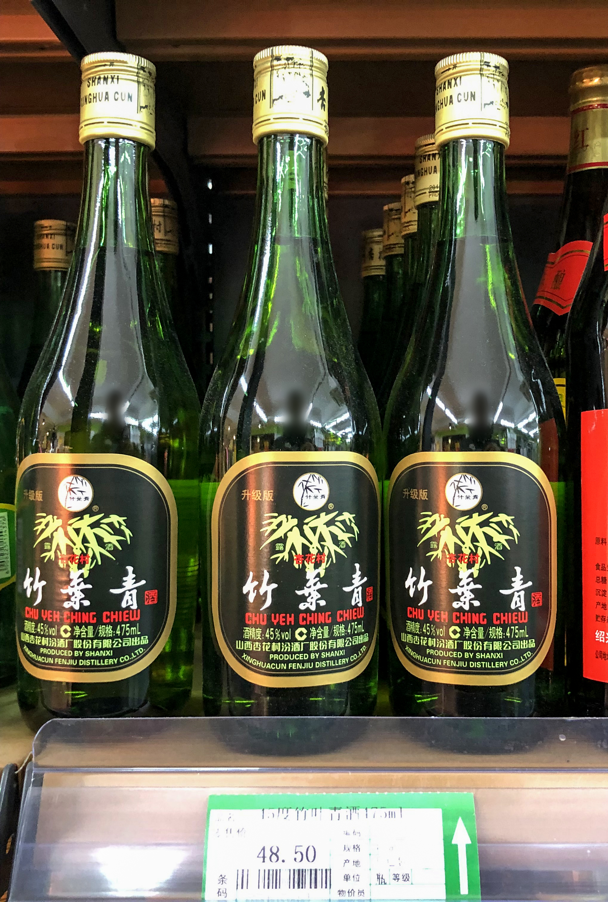 I think some people knew this liquor from that Hong Kong television CM...